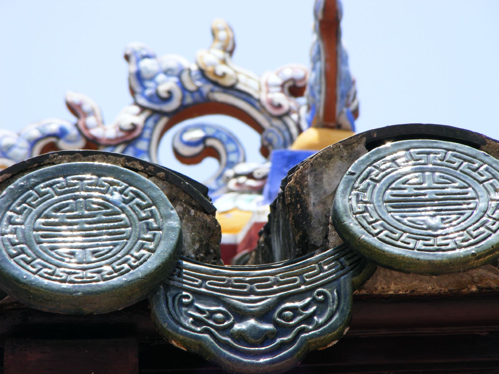 Roof tile detail, Hue